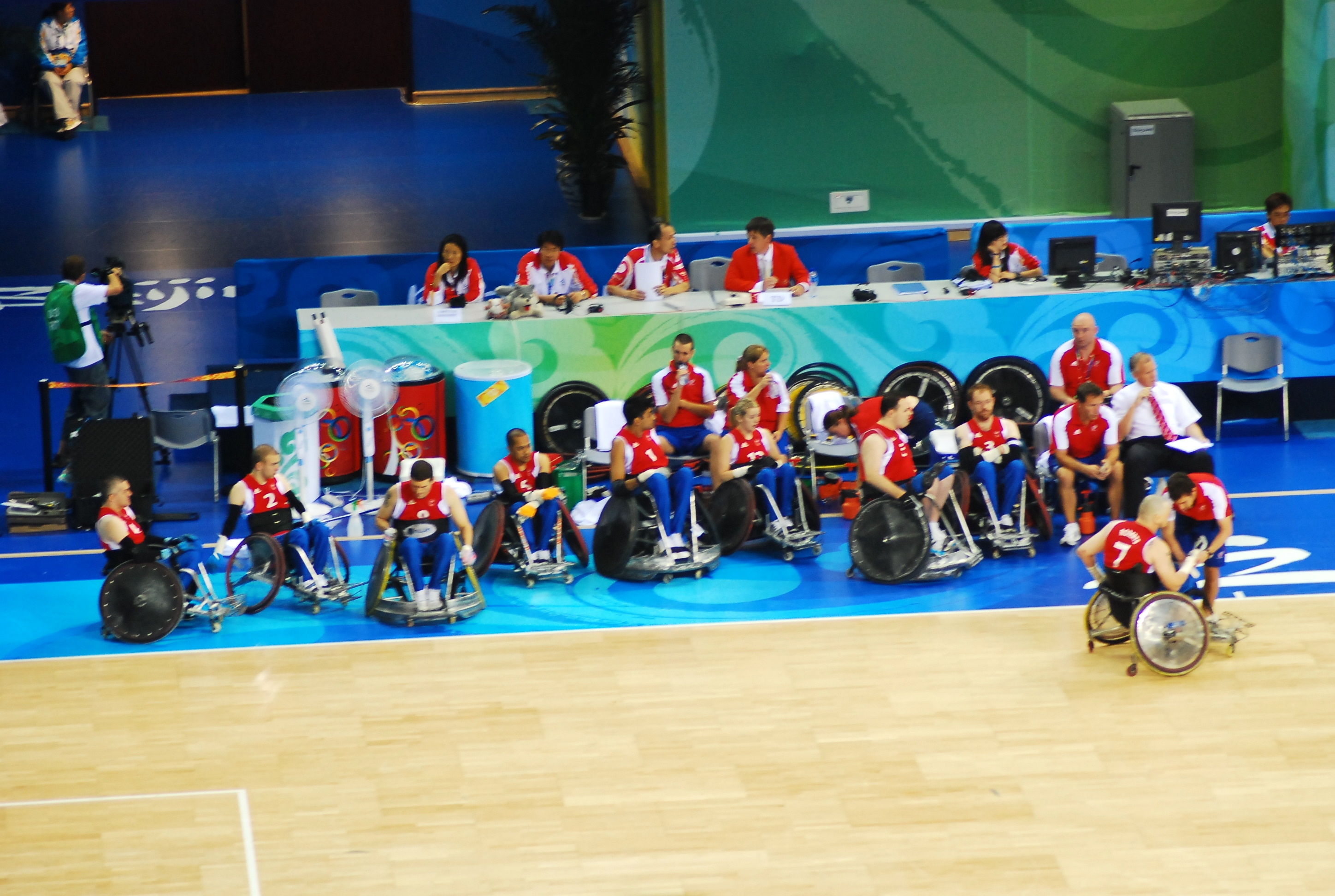 The Great Britain national wheelchair rugby team at the 2008 Paralympic Summer Games in Beijing.